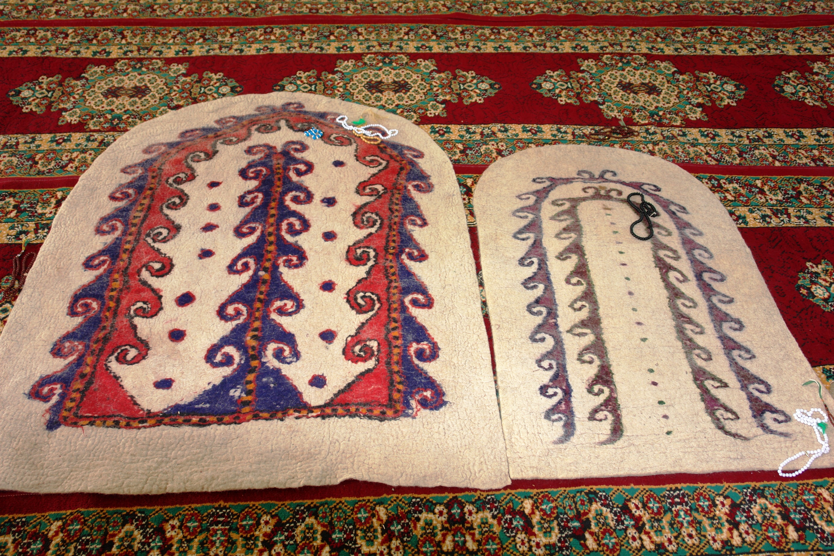 Turkmen namazliks in mosque in Nohur village, Turkmenistan.